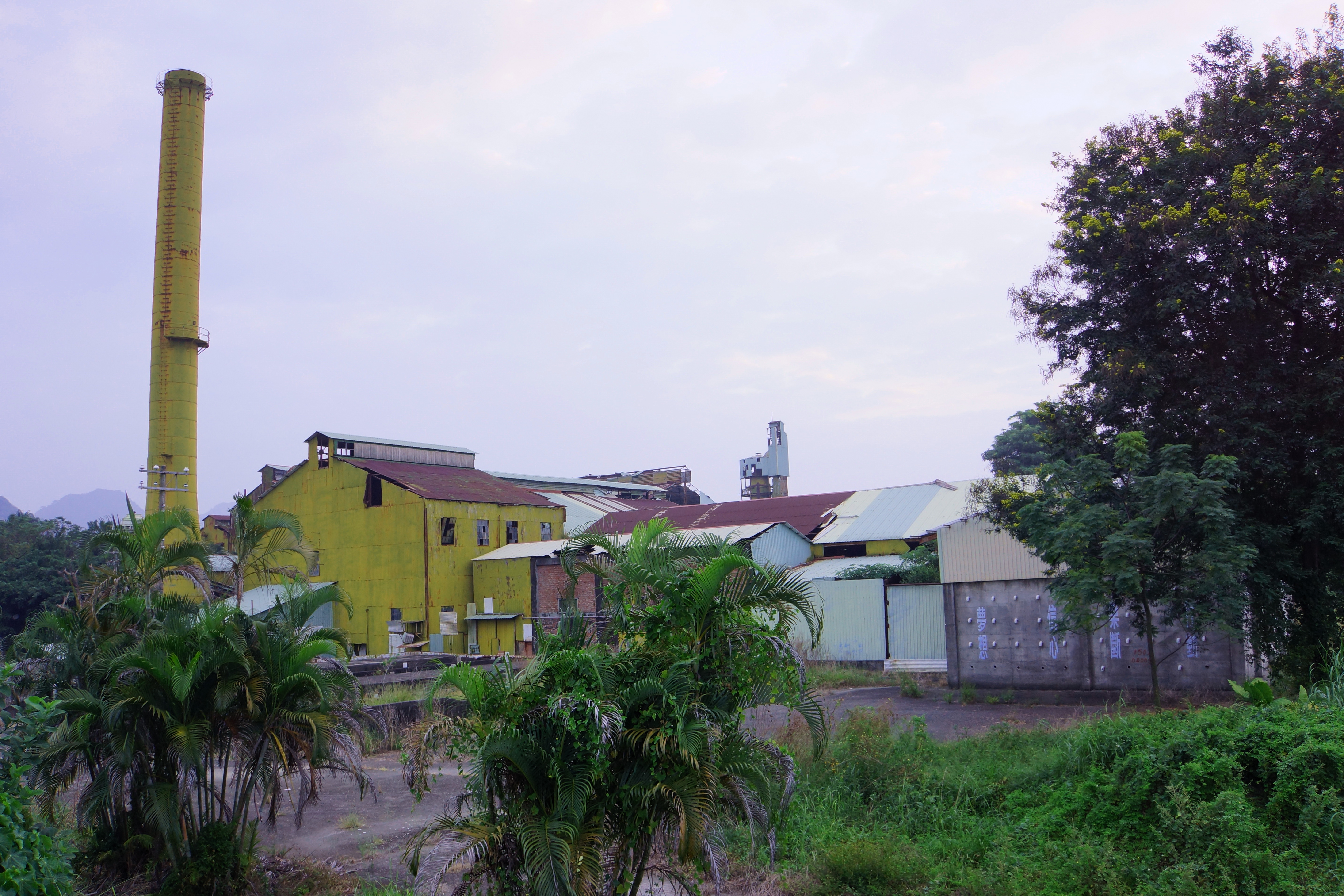 旗山糖廠 Qishan Sugar Refinery